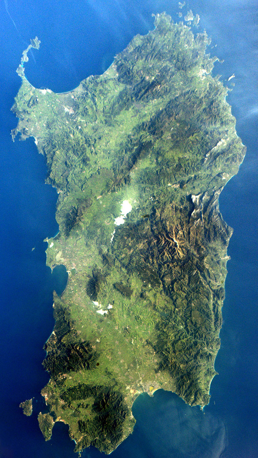 The island of Sardinia as seen from the International Space Station